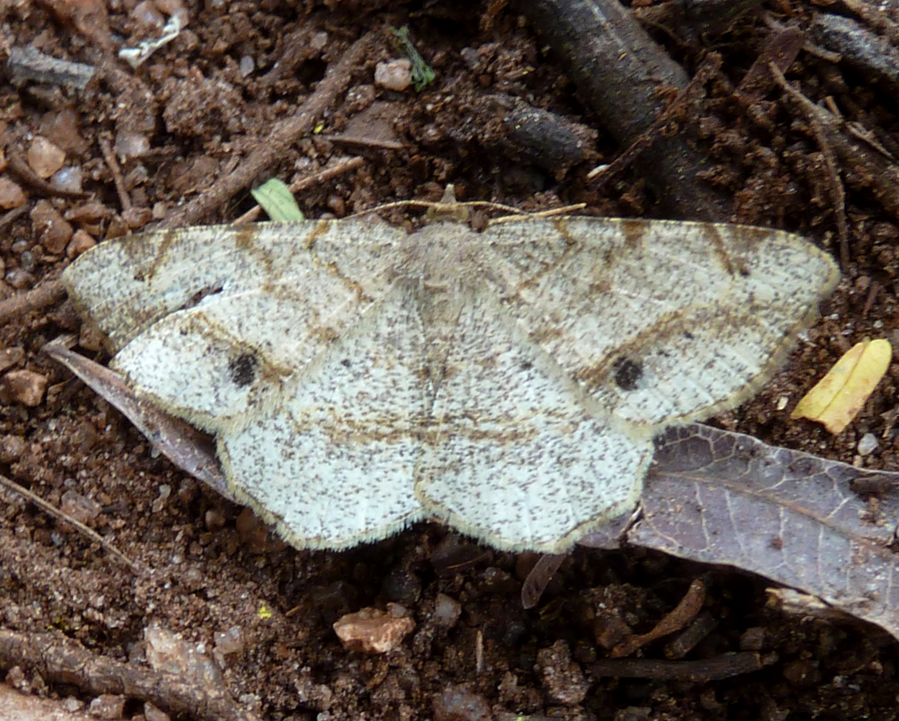 Variable peacock on the southern slope of the Magaliesberg, near Skeerpoort, Northwest province, South Africa